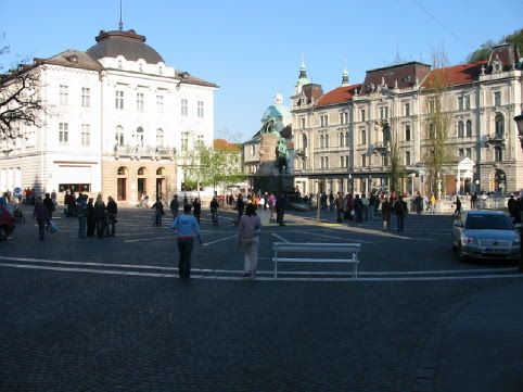 Prešeren Square, Ljubljana (Slovenia).